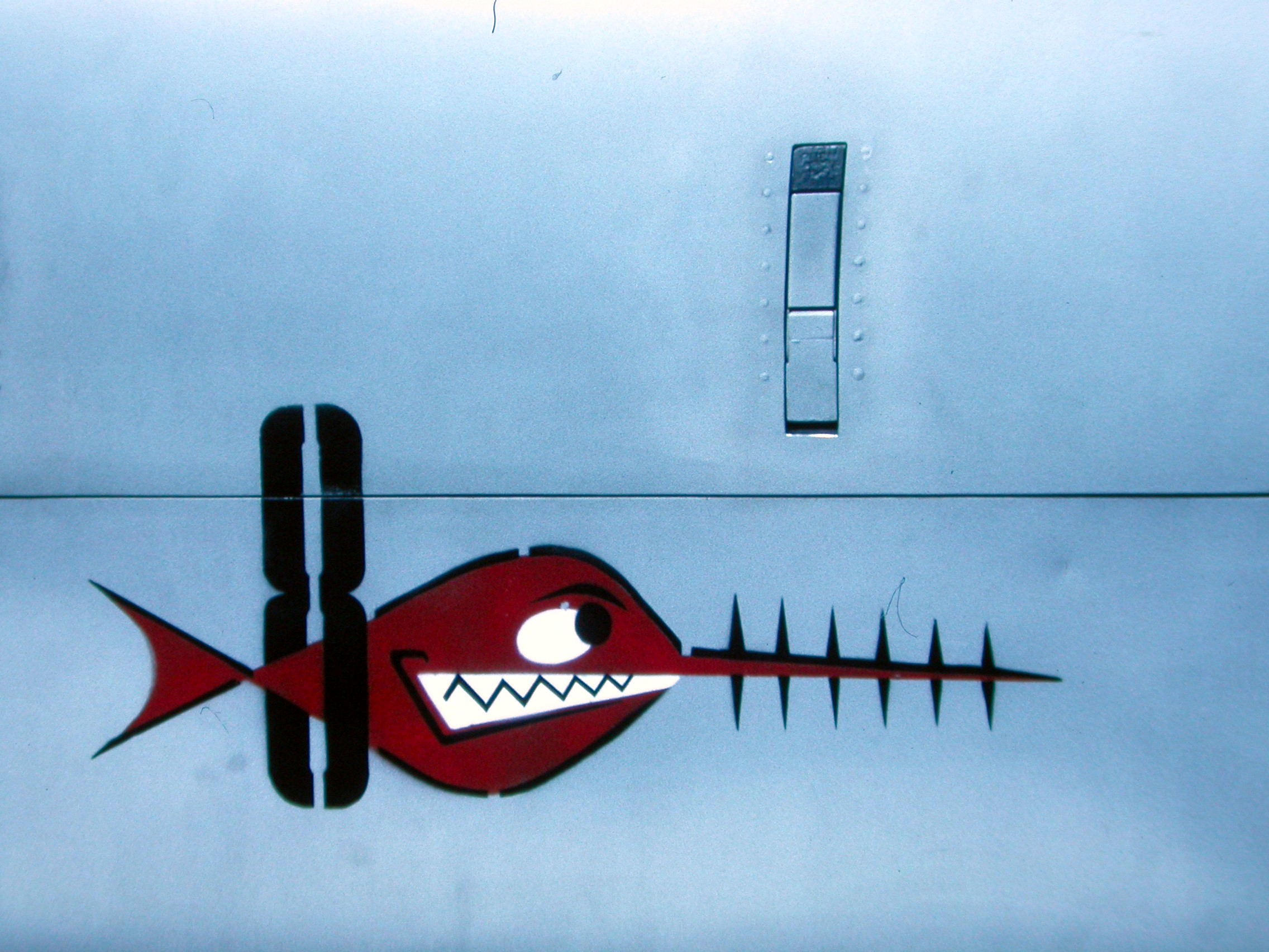 Squadron emblem of the Swiss Air Force